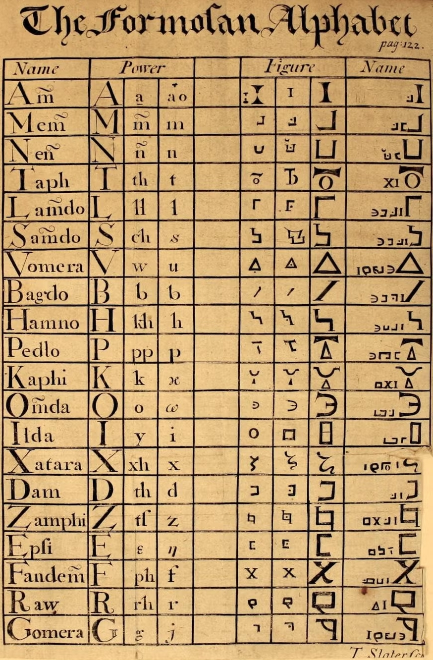 Hoax "Formosan" alphabet by 18th-century faker Psalmanazar